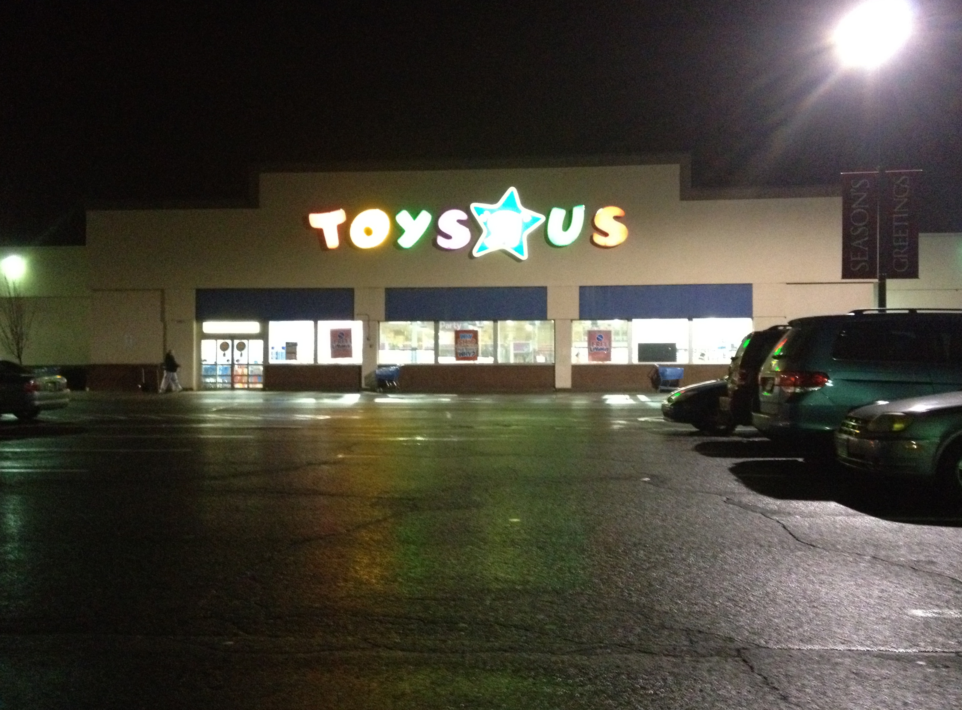 Toys R Us Manchester, CT